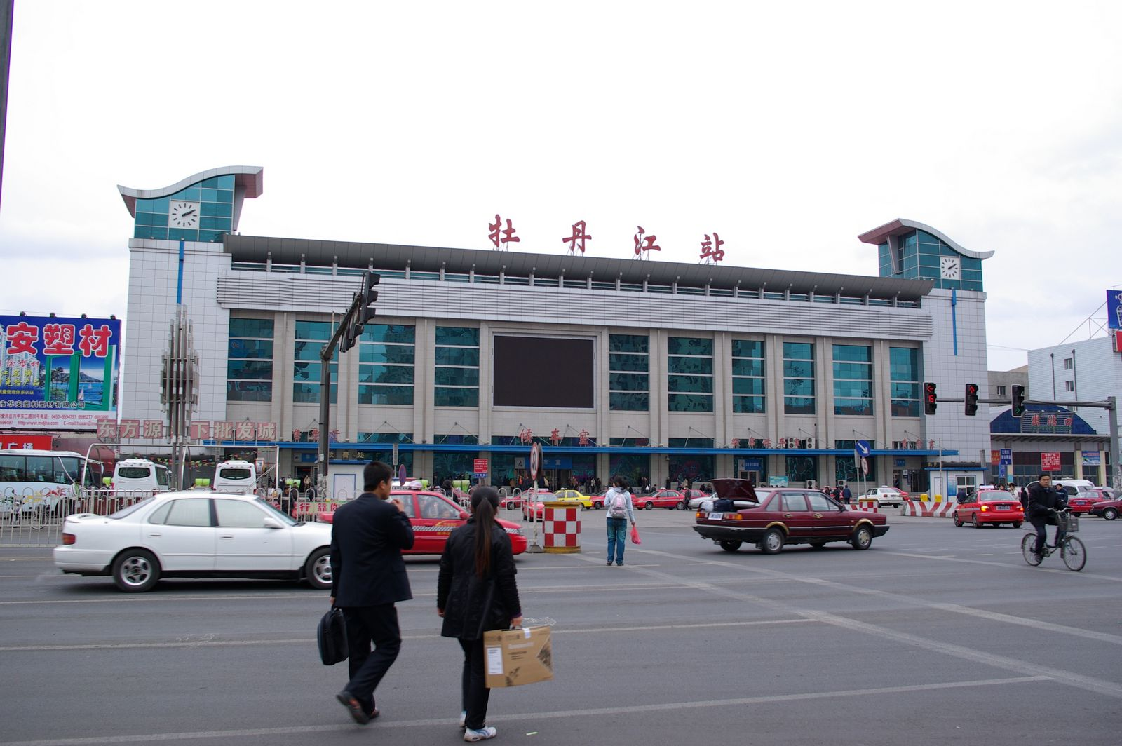 Mudanjiang Railway Station